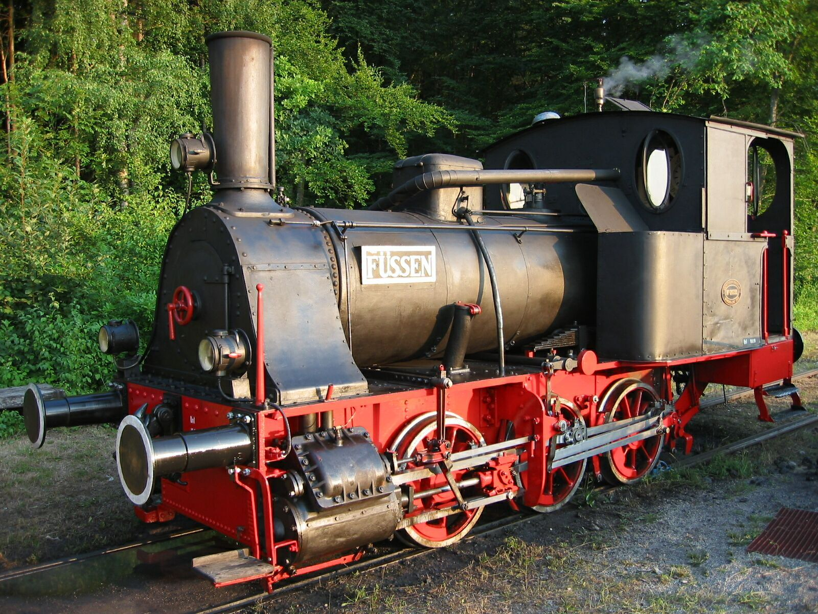 Locomotive Fuessen (1889)